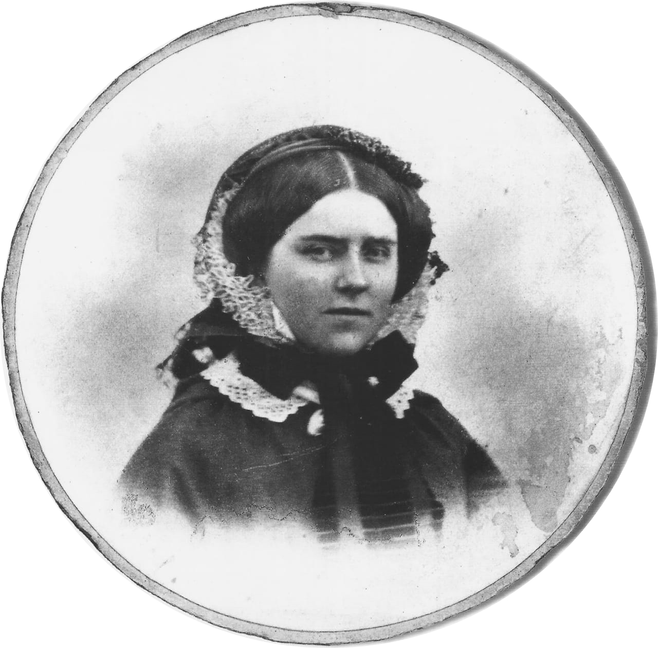 Portrait of Stephanie of Hohenzollern-Sigmaringen (1837-1859)